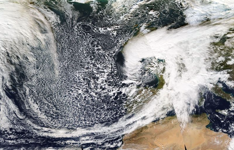 Storm Angus of the 2016–17 UK and Ireland windstorm season on 21 November 2016.